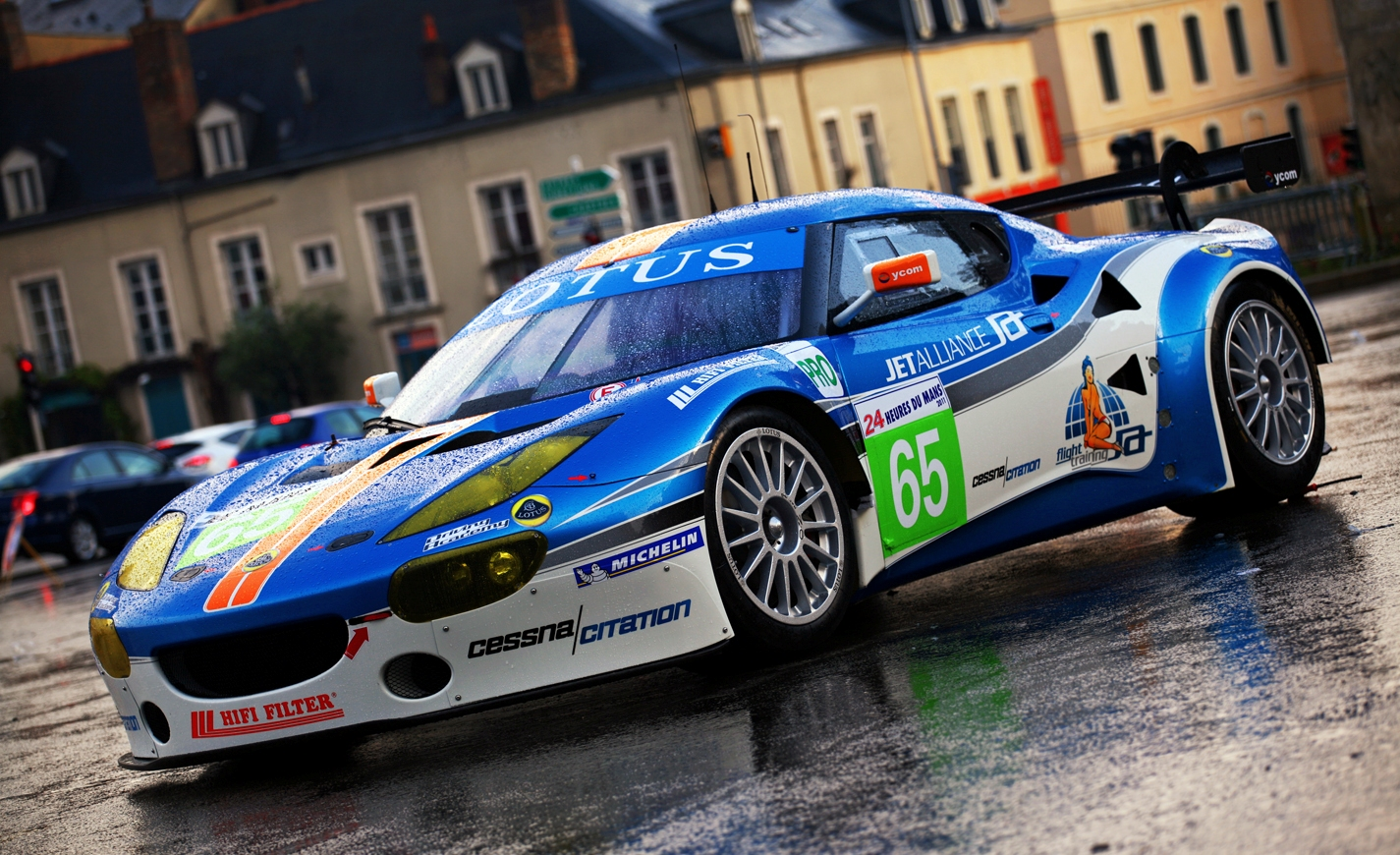 Lotus Evora 124 lm 2011